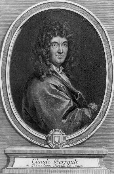 French physician and architect Claude Perrault (1613-1688). Engraving by Gérard Edelinck (1649-1707) after Vercelin.